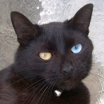 Rare Odd Eyed Black Cat